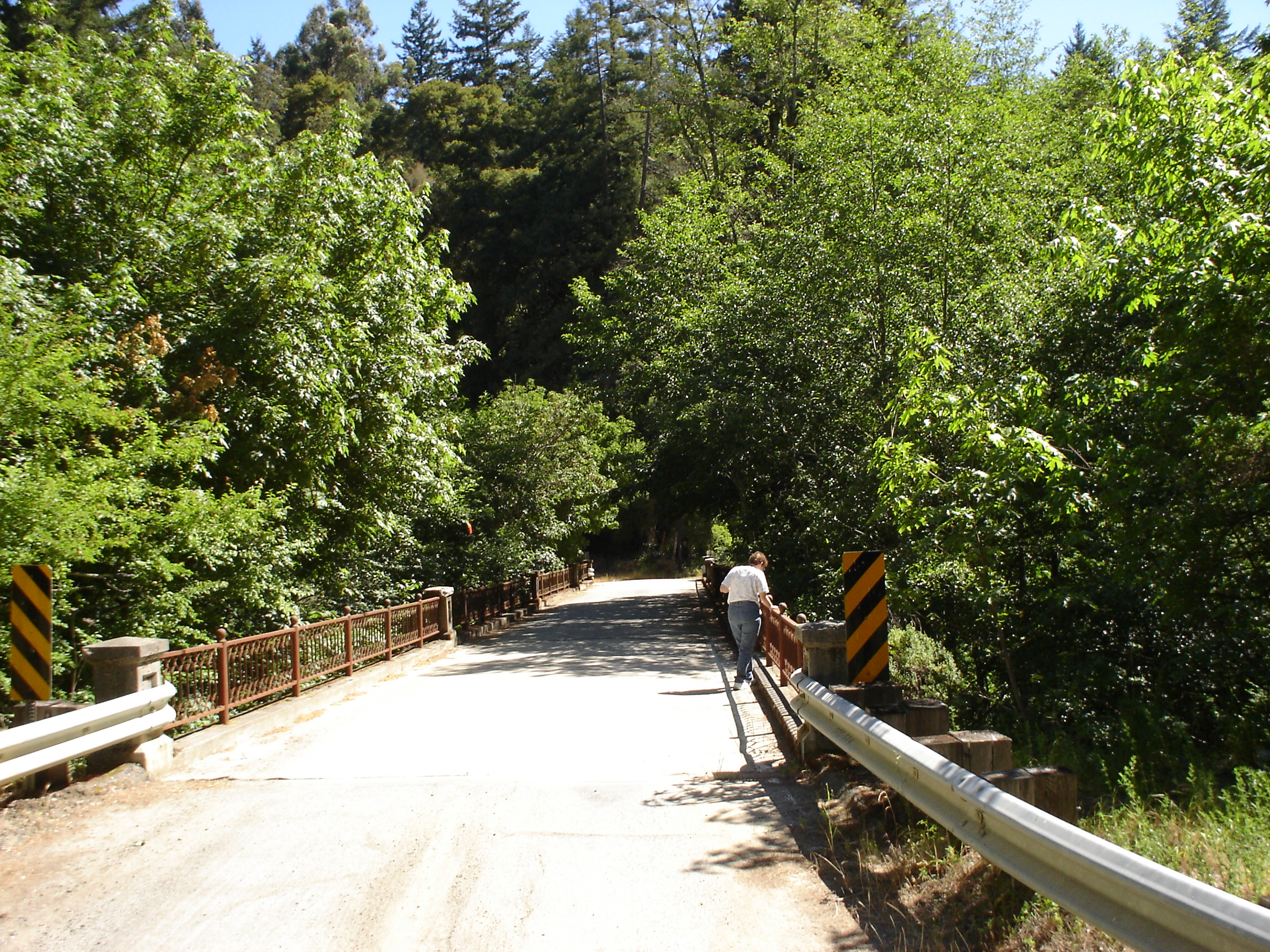 Author:Robert E. Nylund Source:Personal Photos